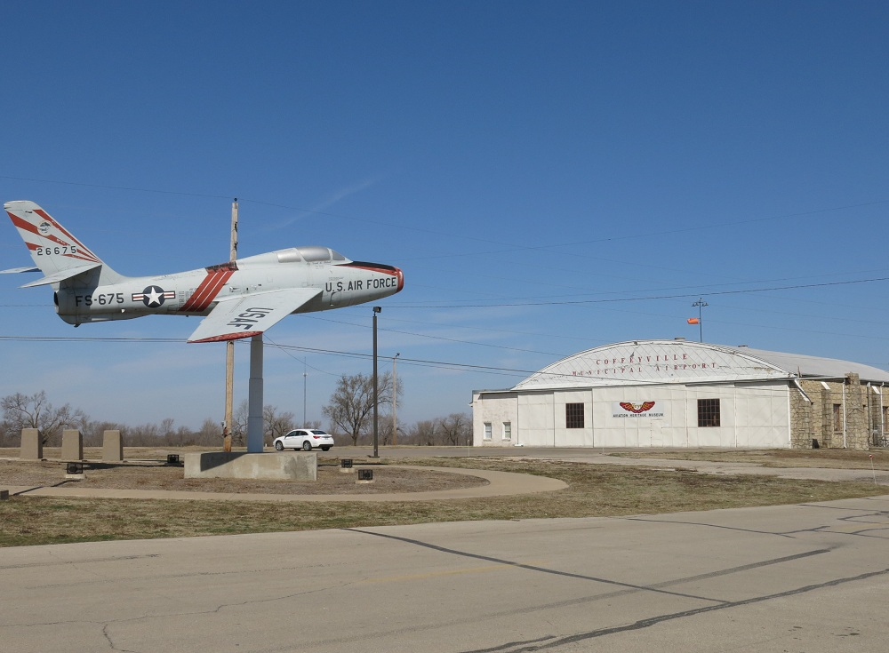 F-84F in front of Aviation Heritage Museum in Coffeyville, Kansas